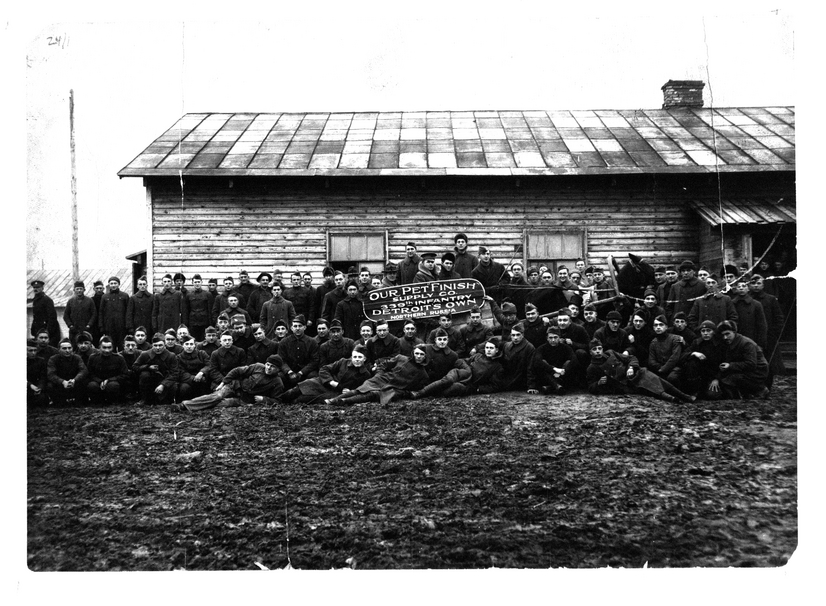 American soldiers of the 339th Infantry during the Polar Bear Expedition.